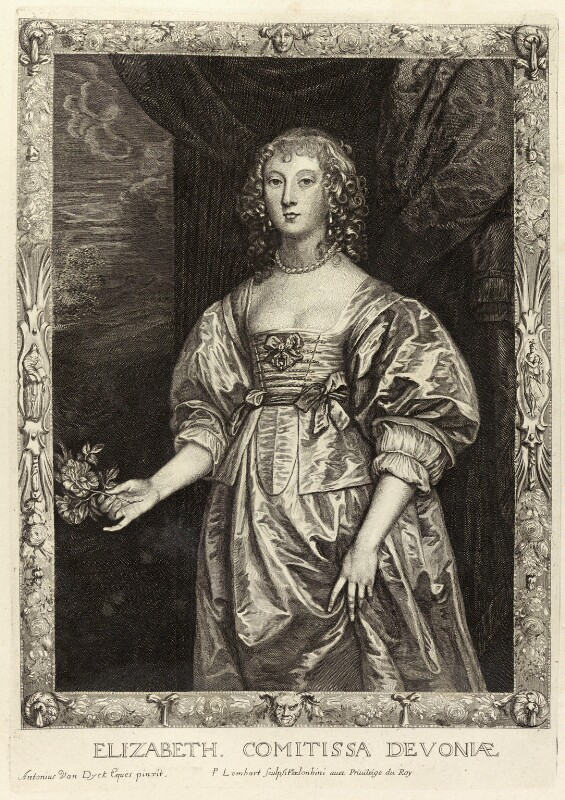 Elizabeth Cecil, Countess of Devonshire married William Cavendish, 3rd Earl of Devonshire (c. October 10, 1617 – November 23, 1684) : Elizabeth Cecil, Countess of Devonshire, ob. 1689.: Van Dyck, Anthony, Sir, 1599-1641 -- Artist: 1 print : b&w ; 25 x 18 cm. (9 3/4 x 6 3/4 in.)